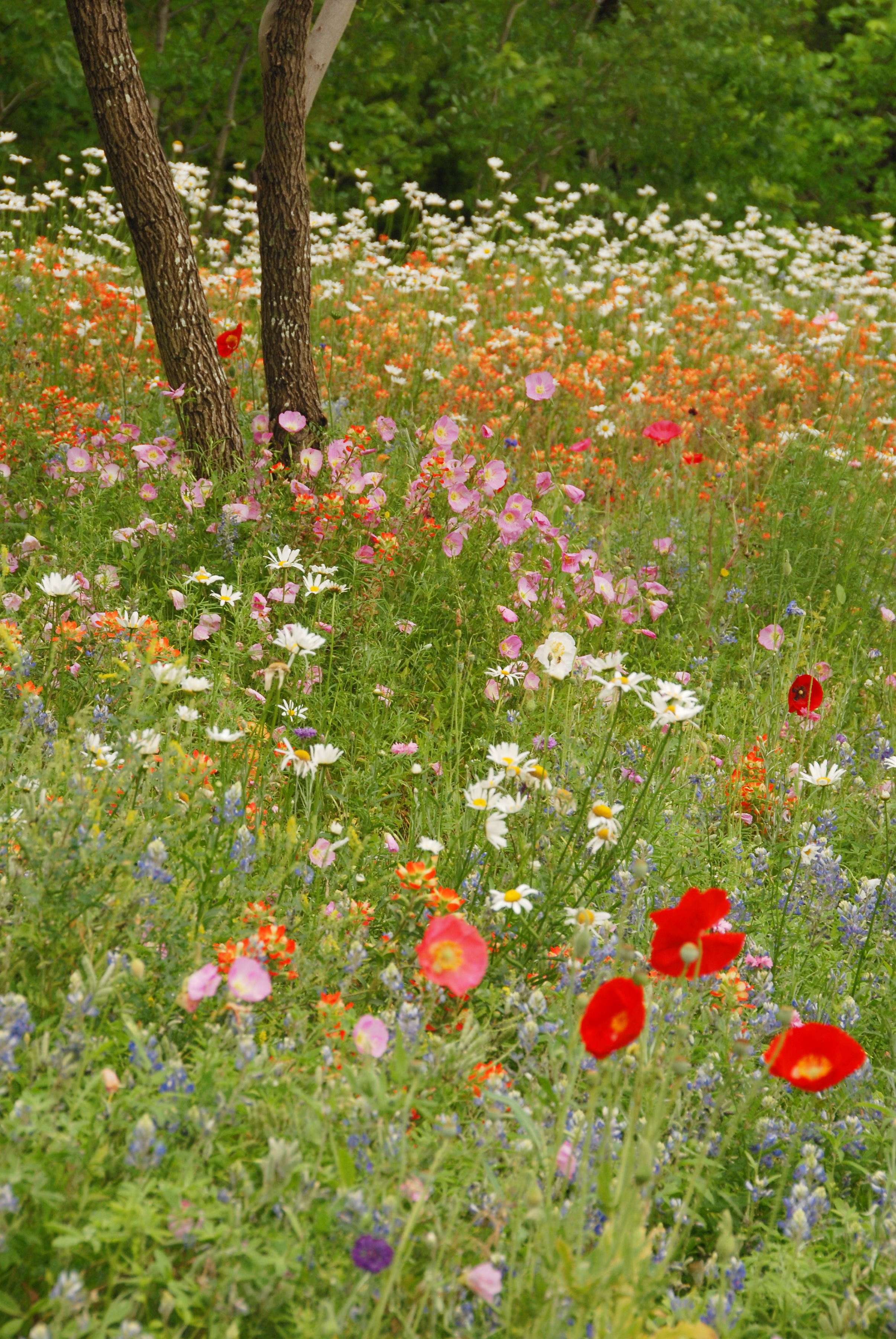 It is springtime, and across the southern plains and grasslands of the United States, the wildflowers are in full bloom, a truly dramatic and memorable sight. This view of mixed flora and color was seen in a field in central Texas near Lake Grapevine.